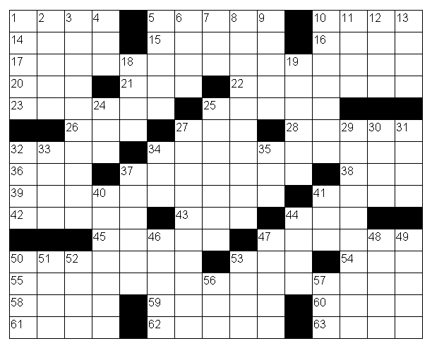 Sample American-style crossword grid